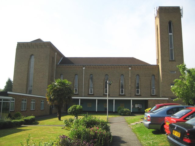 South Oxhey: St Joseph's Catholic Church The church was founded in 1952 to serve the London County Council built South Oxhey housing estate. The church was built here, on the south side of Oxhey Drive, in 1960 and consecrated in 1981. Its website is here The Church belongs to the Roman Catholic Diocese of Westminster. Despite being such a large building with a prominent tower overlooking South Oxhey it is difficult to photograph being surrounded by houses on its eastern, southern and western sides. As can be seen this tower has been an obvious target for mobile telephone companies wishing to use it for mounting their masts. From a Geograph point of view the Ordnance Survey's 193000 metre gridline runs through the church, from right to left in this photograph, so the opposite and southern side of the structure is in TQ1192.